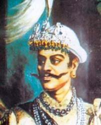 Rana Bahadur Shah, King of Nepal (1777-1799) and Mukhtiyar of Nepal (1804-1806)